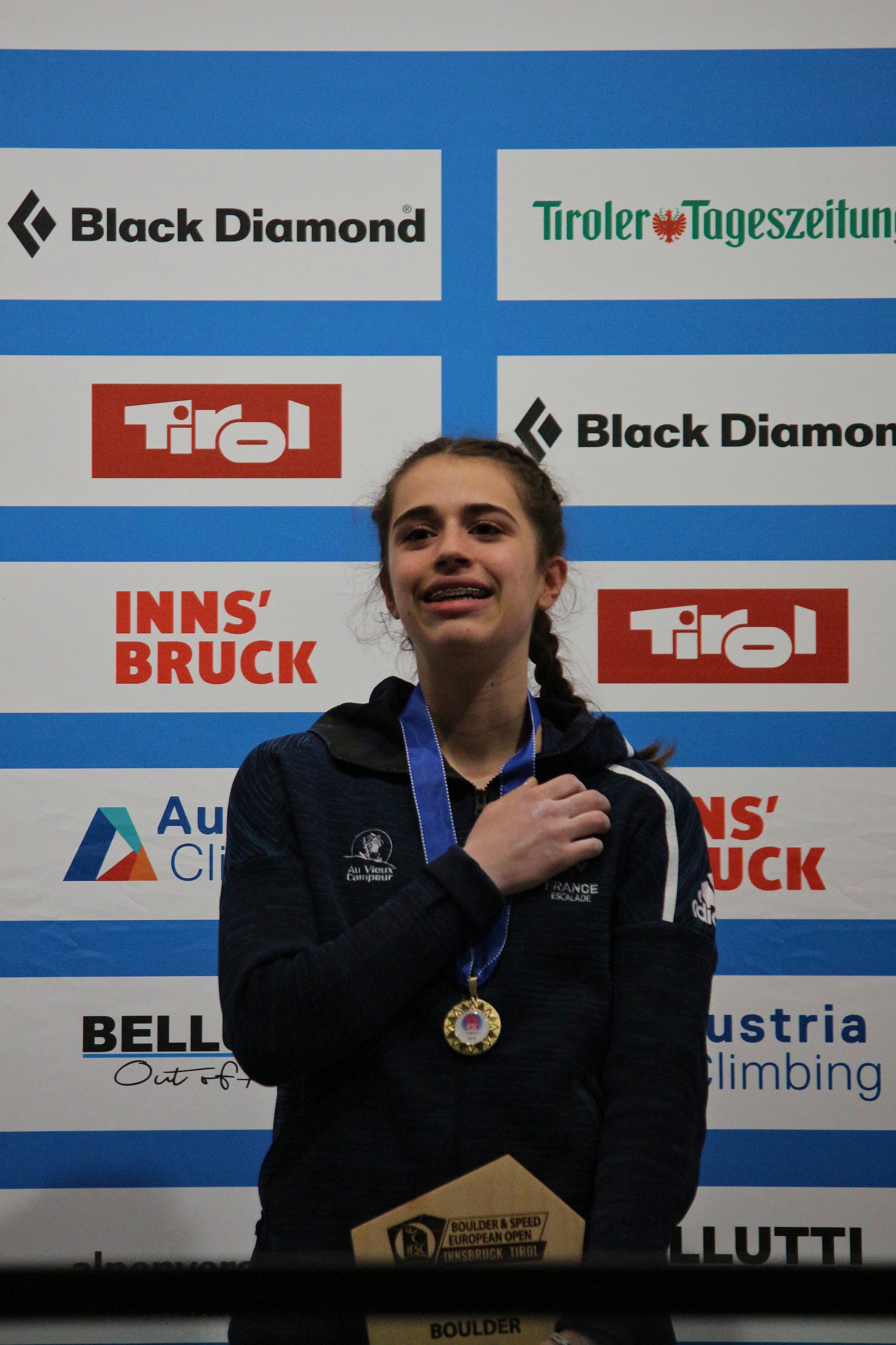 Luce Douady